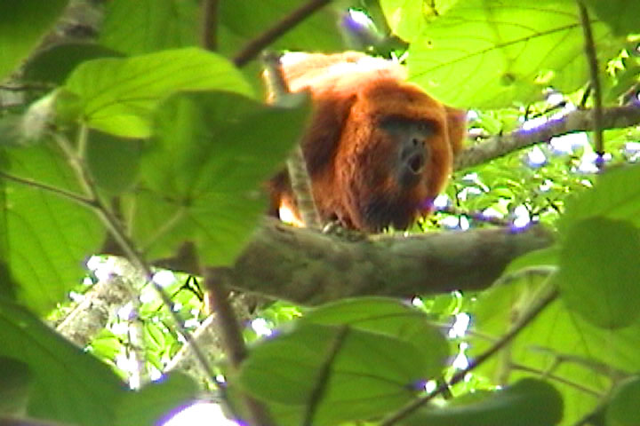 Puicture from the film Howler Monkeys at Embu das Artes